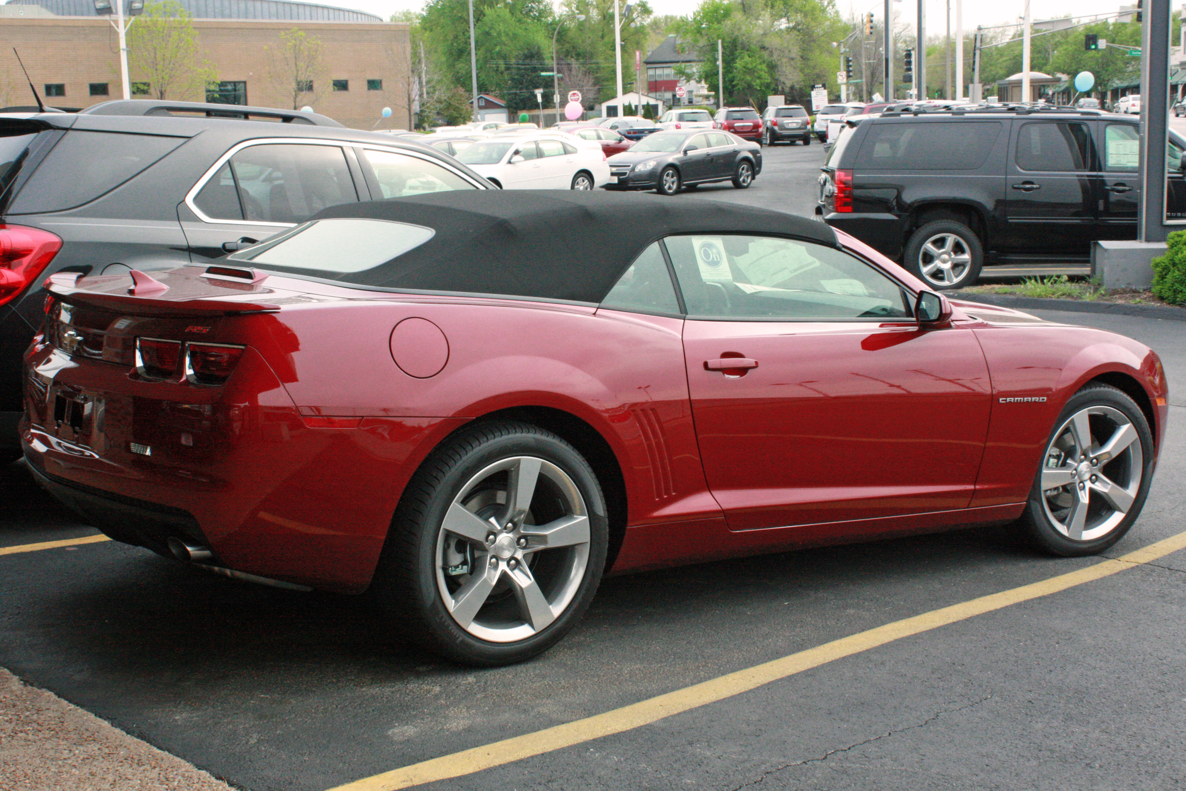 2011 Chevrolet Camaro Convertible